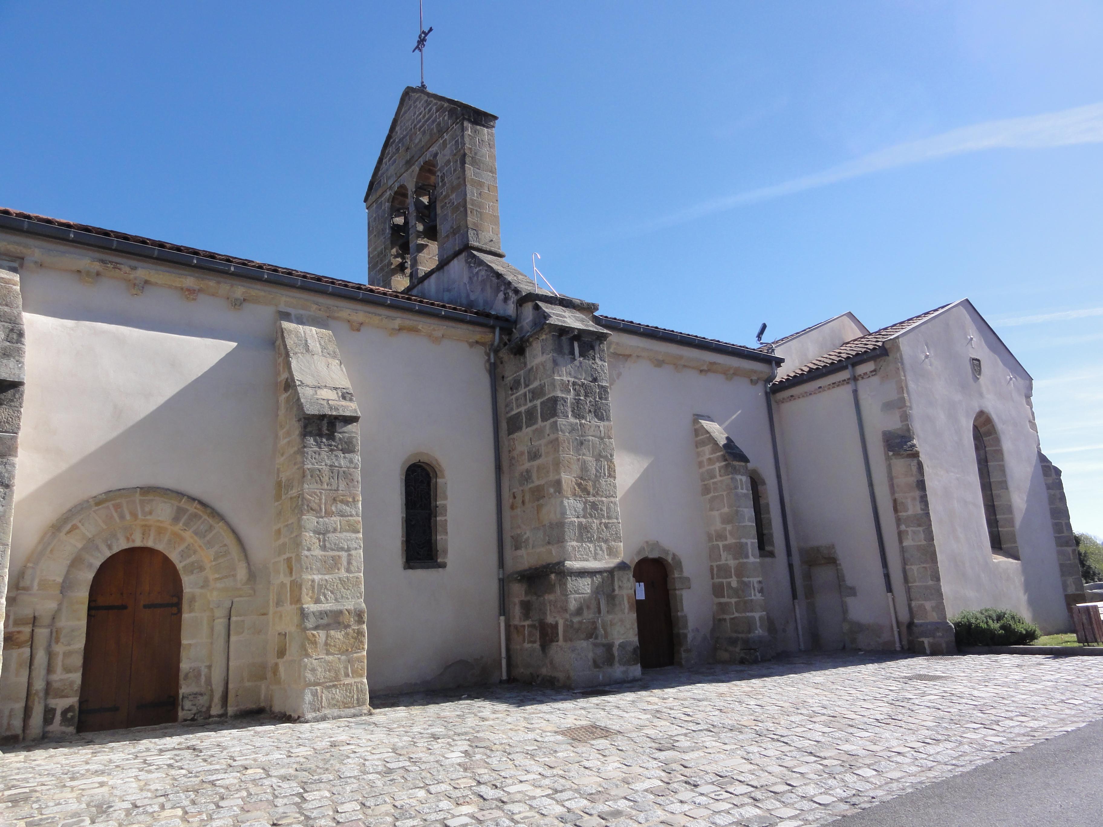 Saint-Maigner (Puy-de-Dôme) église